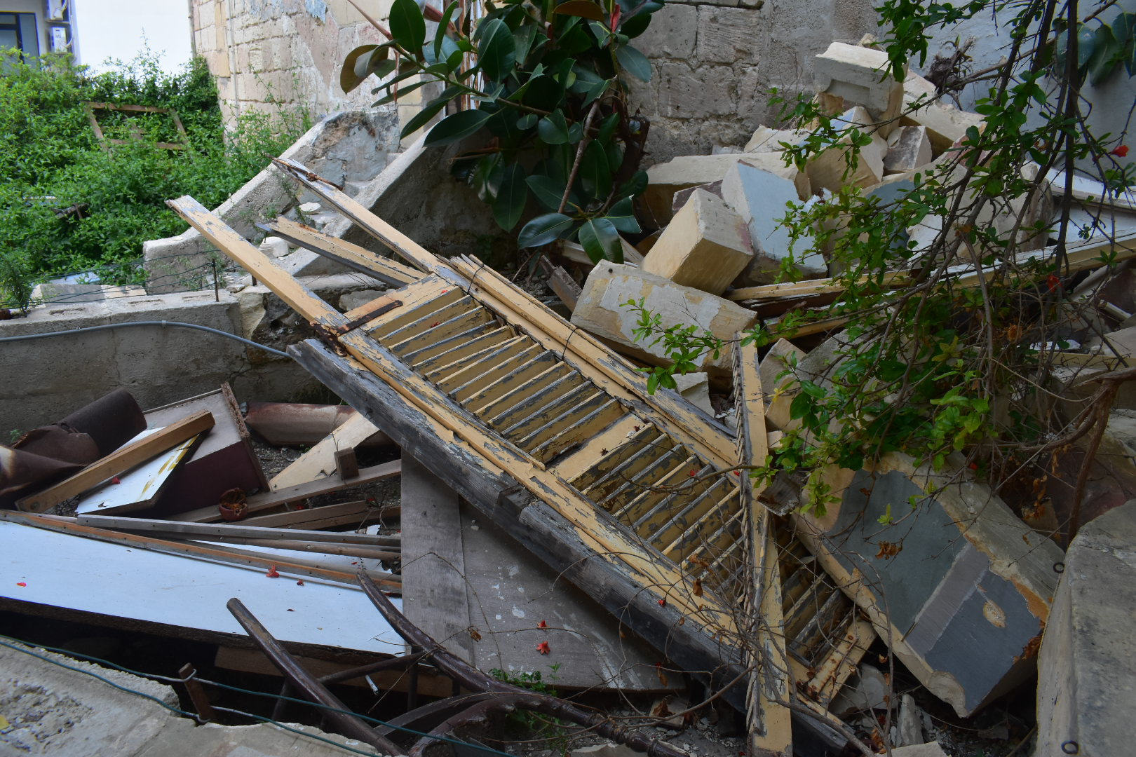 St. Ignatius Villa